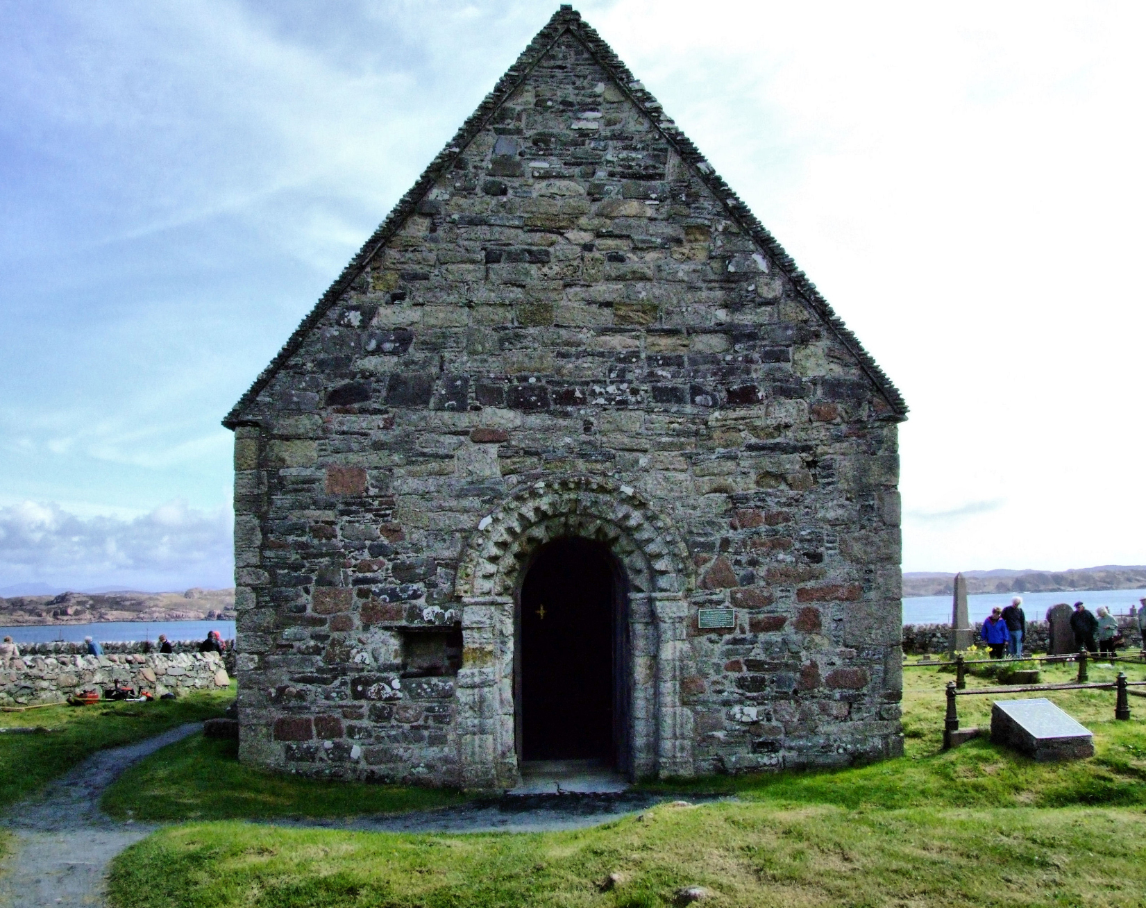 St. Oran's Chapel Built in the twelfth century,this is the oldest of Iona’s surviving Ecclesiastical buildings. It was used as a chapel and the burial place of the Macdonald family,Lords Of The Isles. The Rt. Hon. John Smith QC MP is also buried in this churchyard. He died in 1994 shortly before the General Election when it was thought that he would be the 1st Labour Prime Minister for many years.